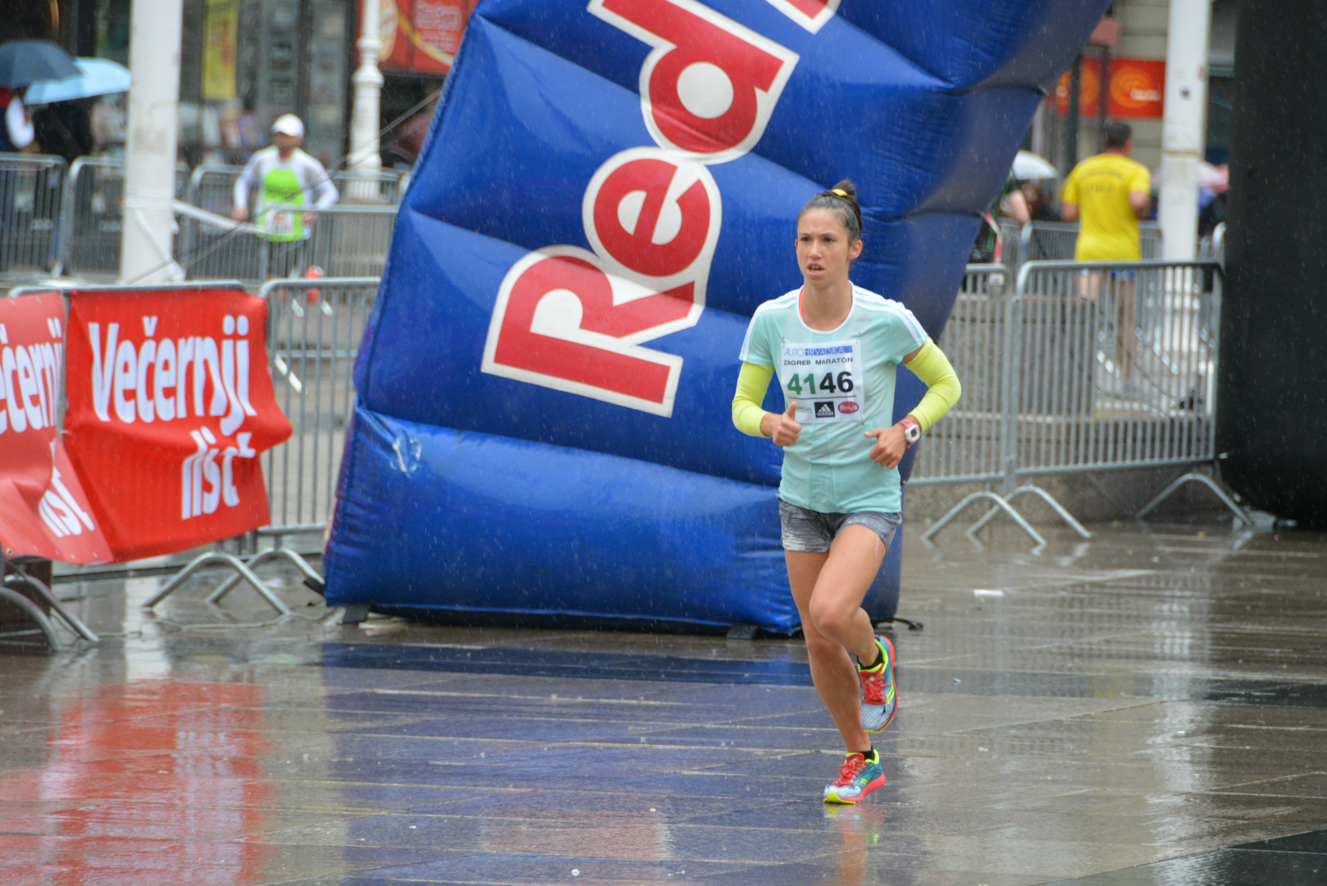 Tünde Szabó of Hungary in the half marathon race at the 2015 Zagreb Marathon.